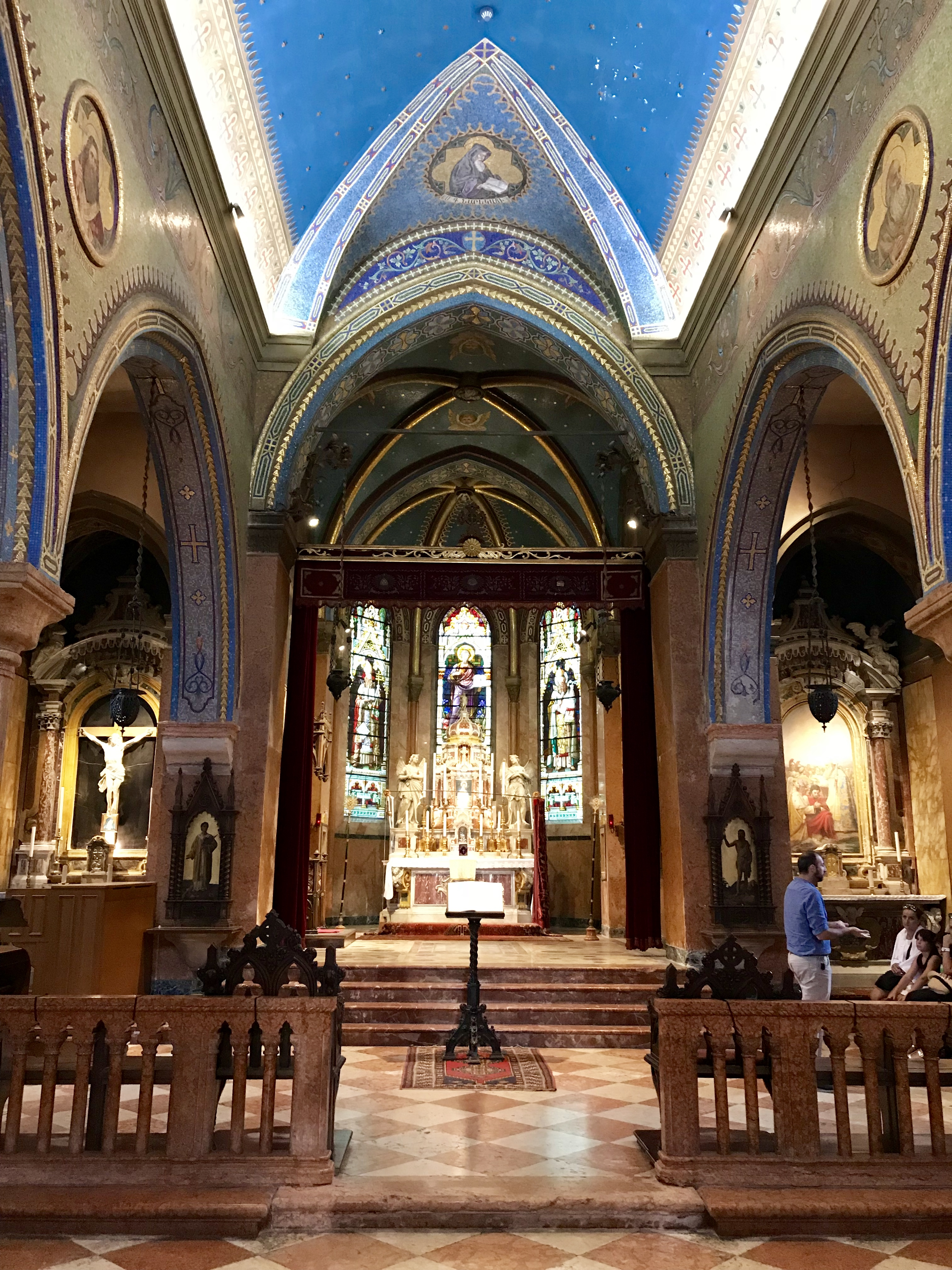 The interior of the church at San Lazzaro degli Armeni